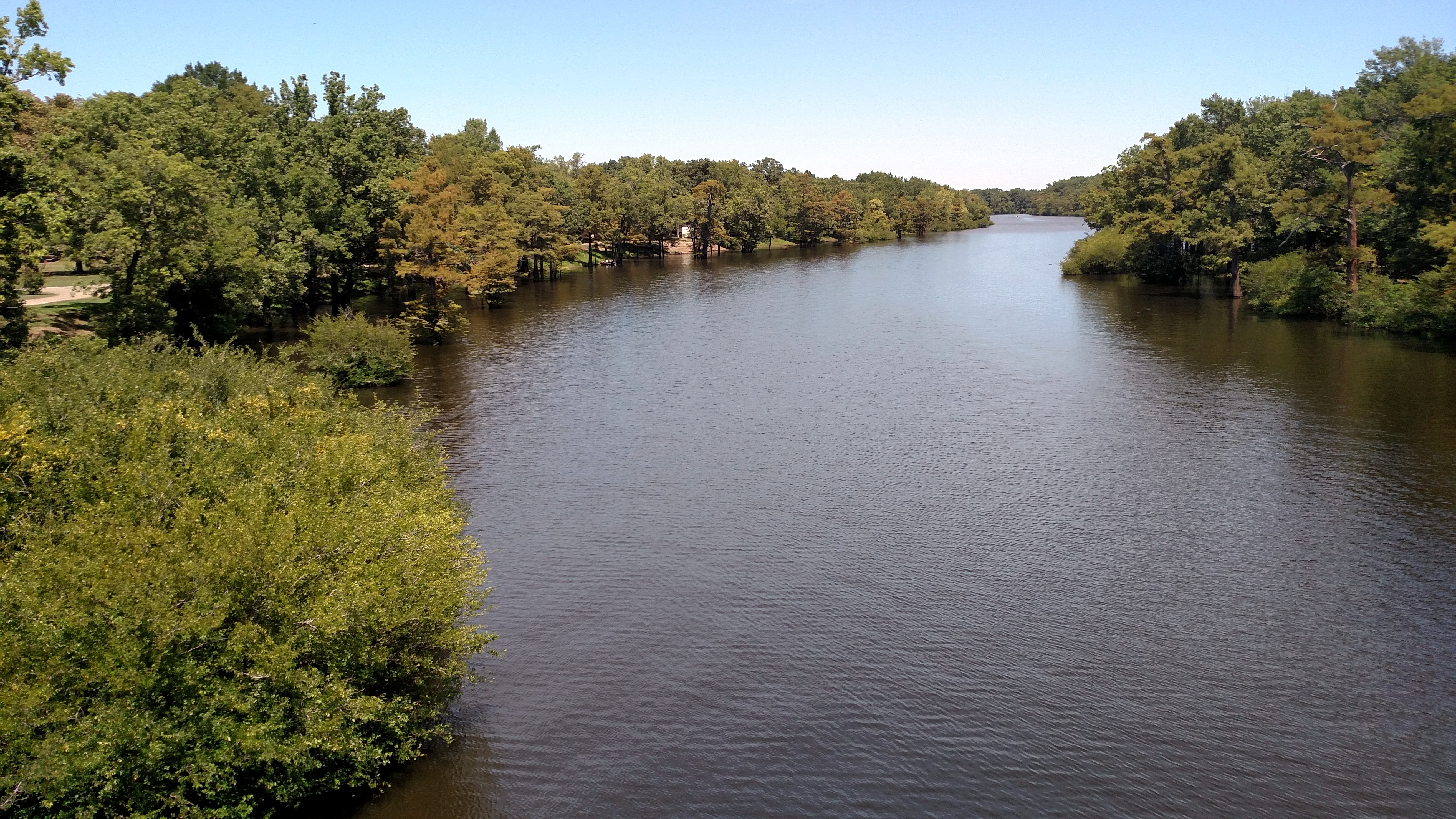 Bayou Des Arc looking north